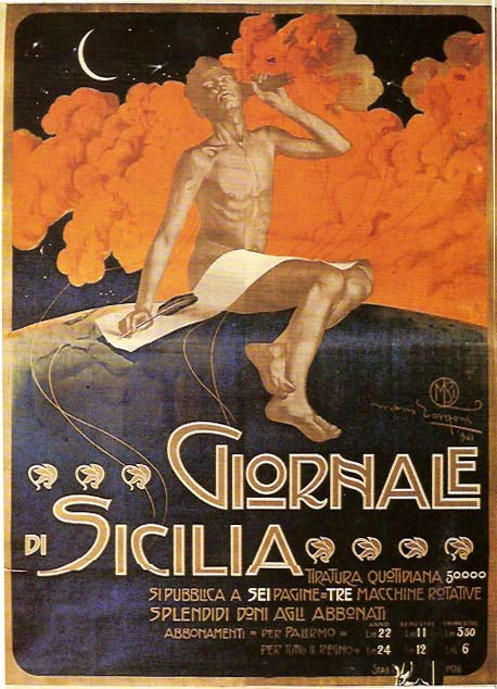 Advertising poster for Giornale di Sicilia by Mario Borgoni.